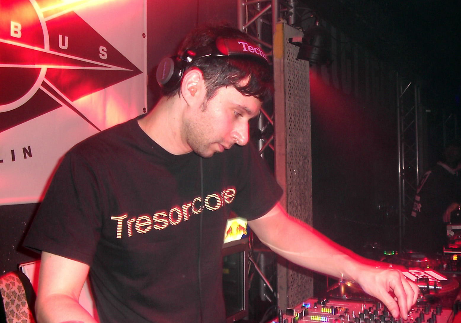 eltron at tresor